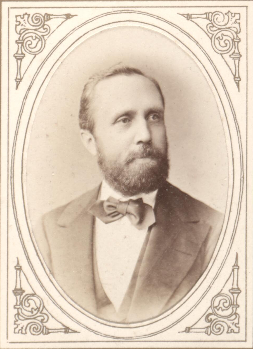 Plate 06 Photograph album of German and Austrian scientists. Wien III (Vienna III): Francis Knight of le Monnier; F.G. Hofmann; Victor Vicomte d’Equevilley; Dr. Neumayr; Bar. Hoblhoff; Johann Pichler; Josef Kaufmann; Dr. Heinrich Wilhelm Reichardt; Franz Groeger; J. Hausner.